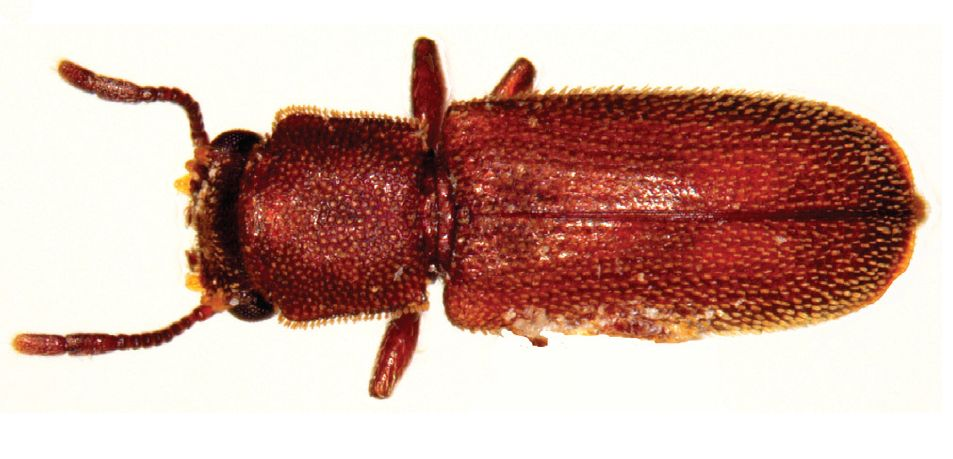 Lyctoxylon dentatum, dorsal view.